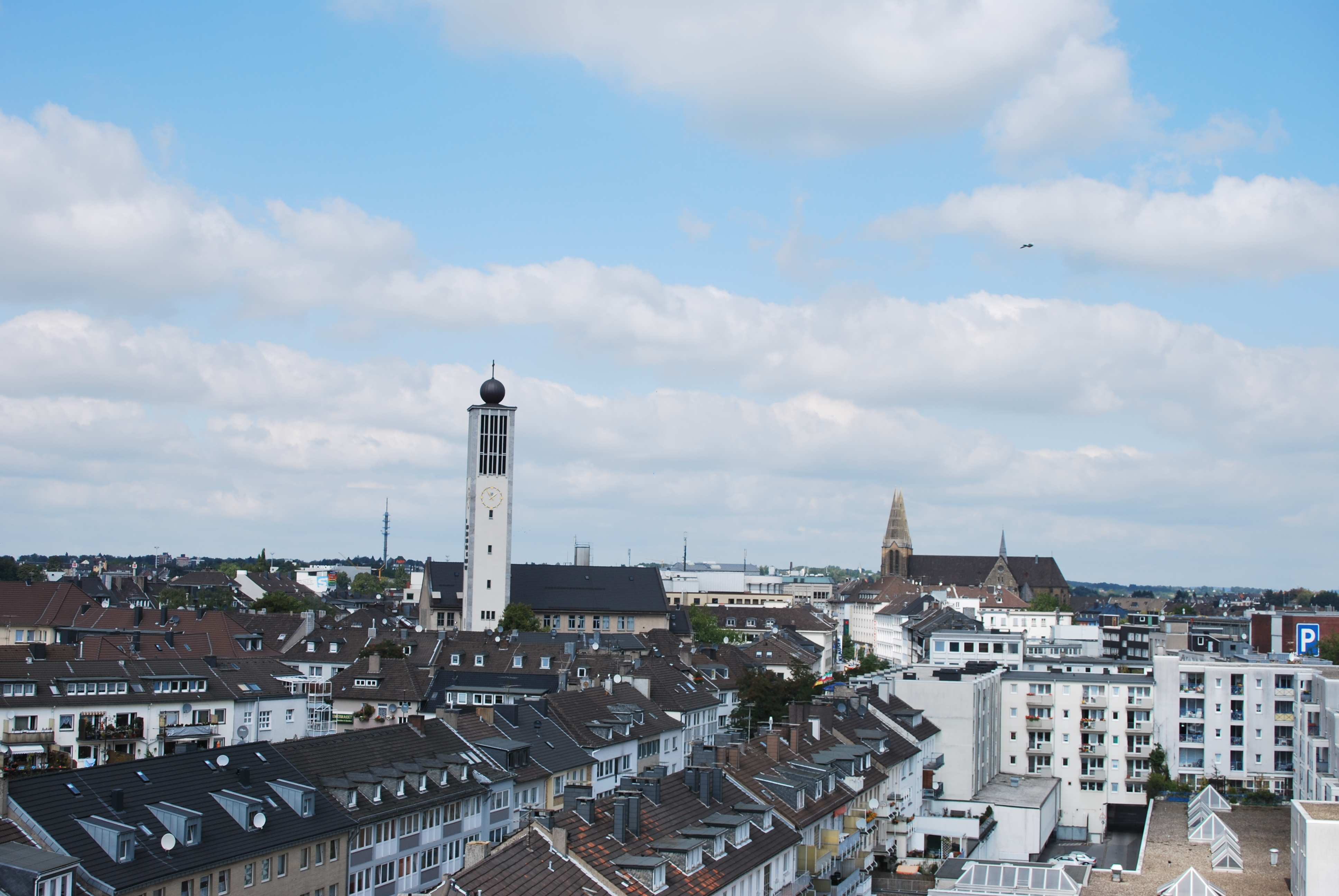 Centre of Solingen. View on the ref. Citychurch (left) and St. Clemens (right).